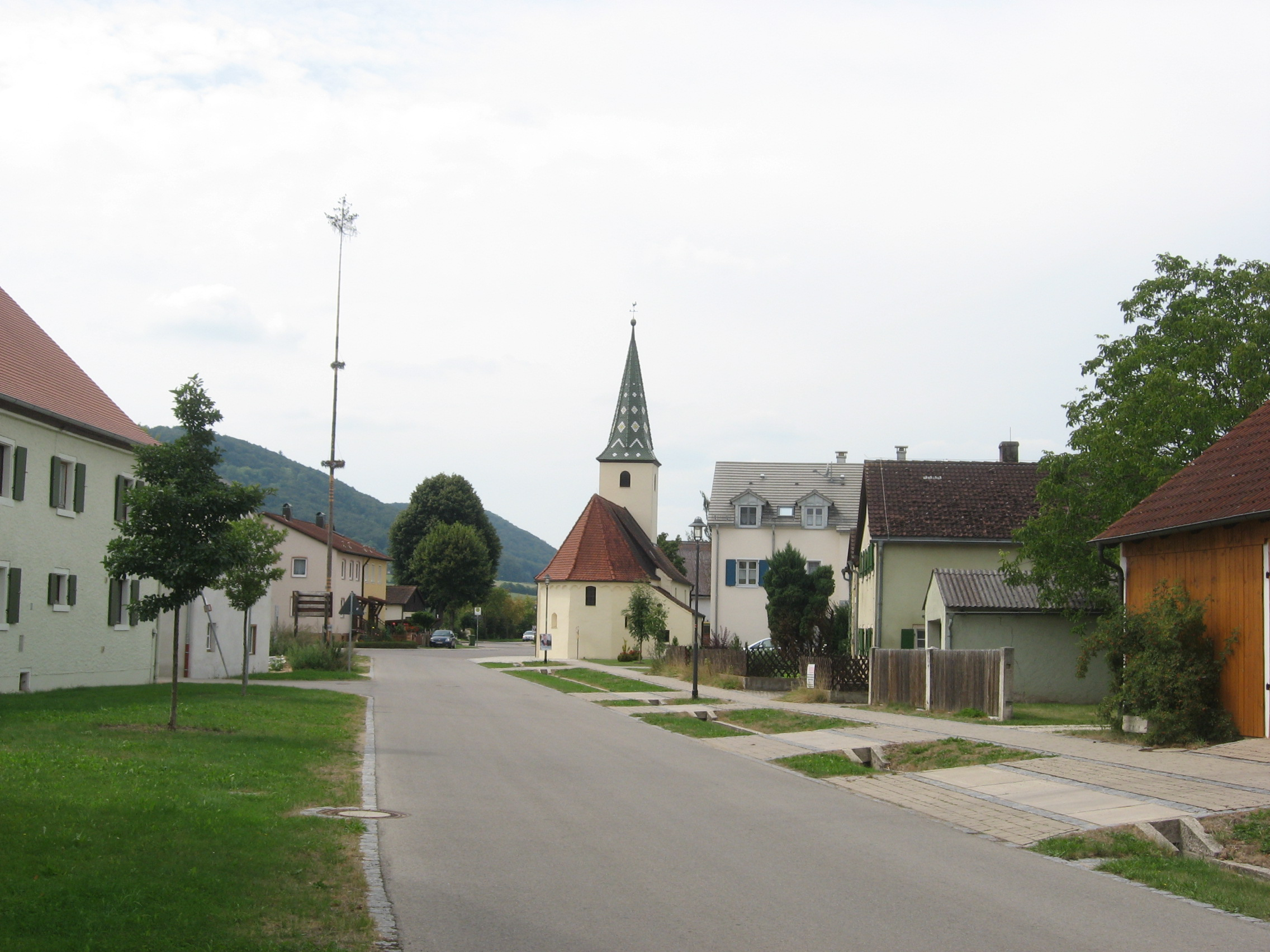 Center of the village Graben near Treuchtlingen, Bavaria, Germany